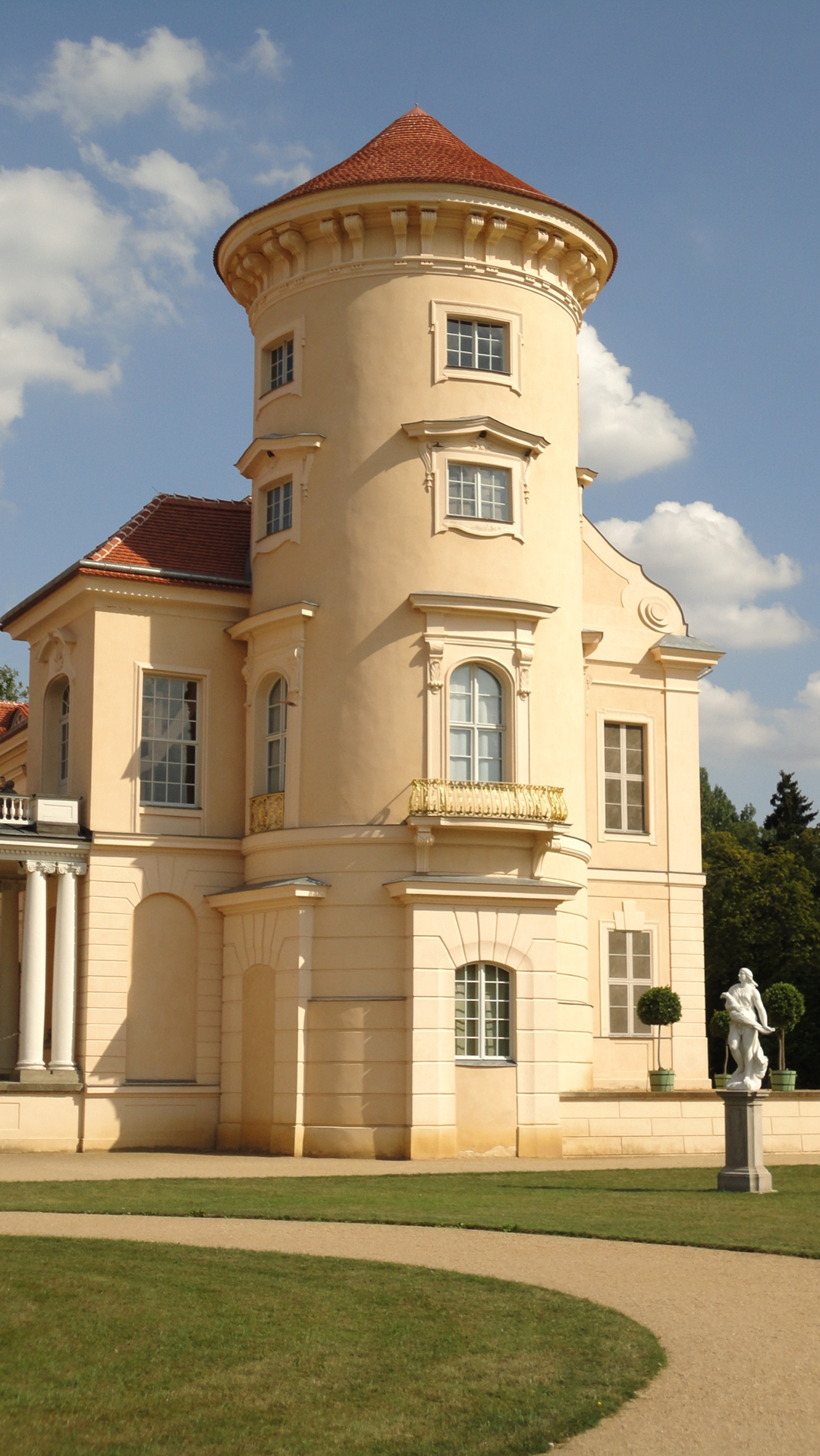 One of the two castle tower of Schloss Rheinsberg.